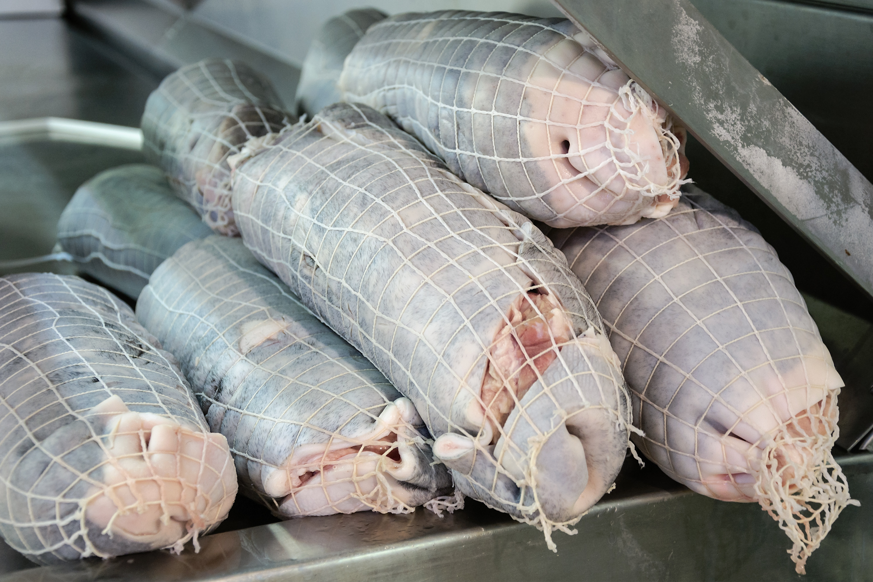 Calf heads prepared for cooking (boned and rolled up), an offal product here on sale in the Rungis International Market, France.